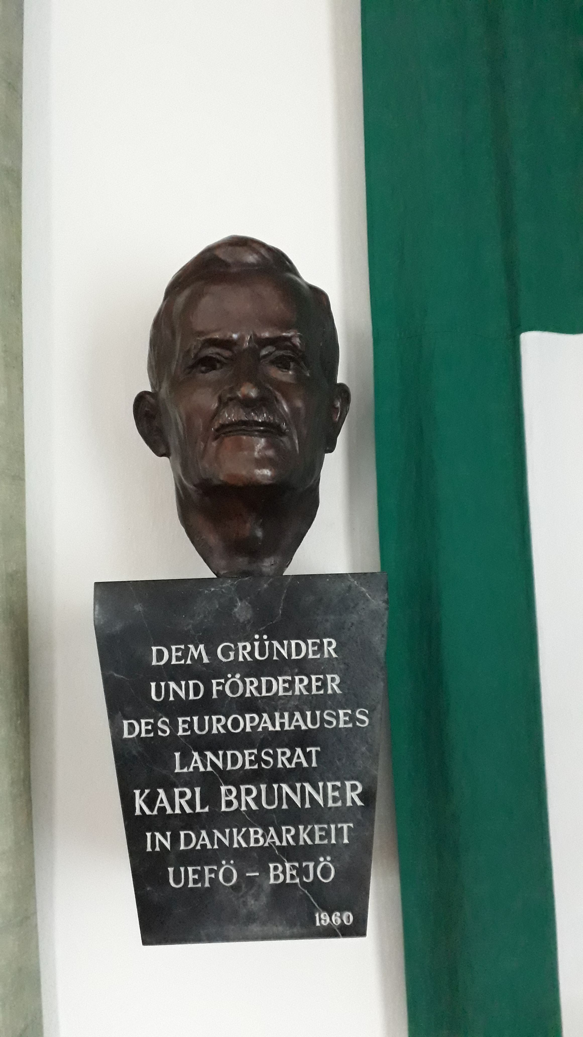 Karl Brunner Bust in Forchtenstein Castle in Styria (Neumarkt)